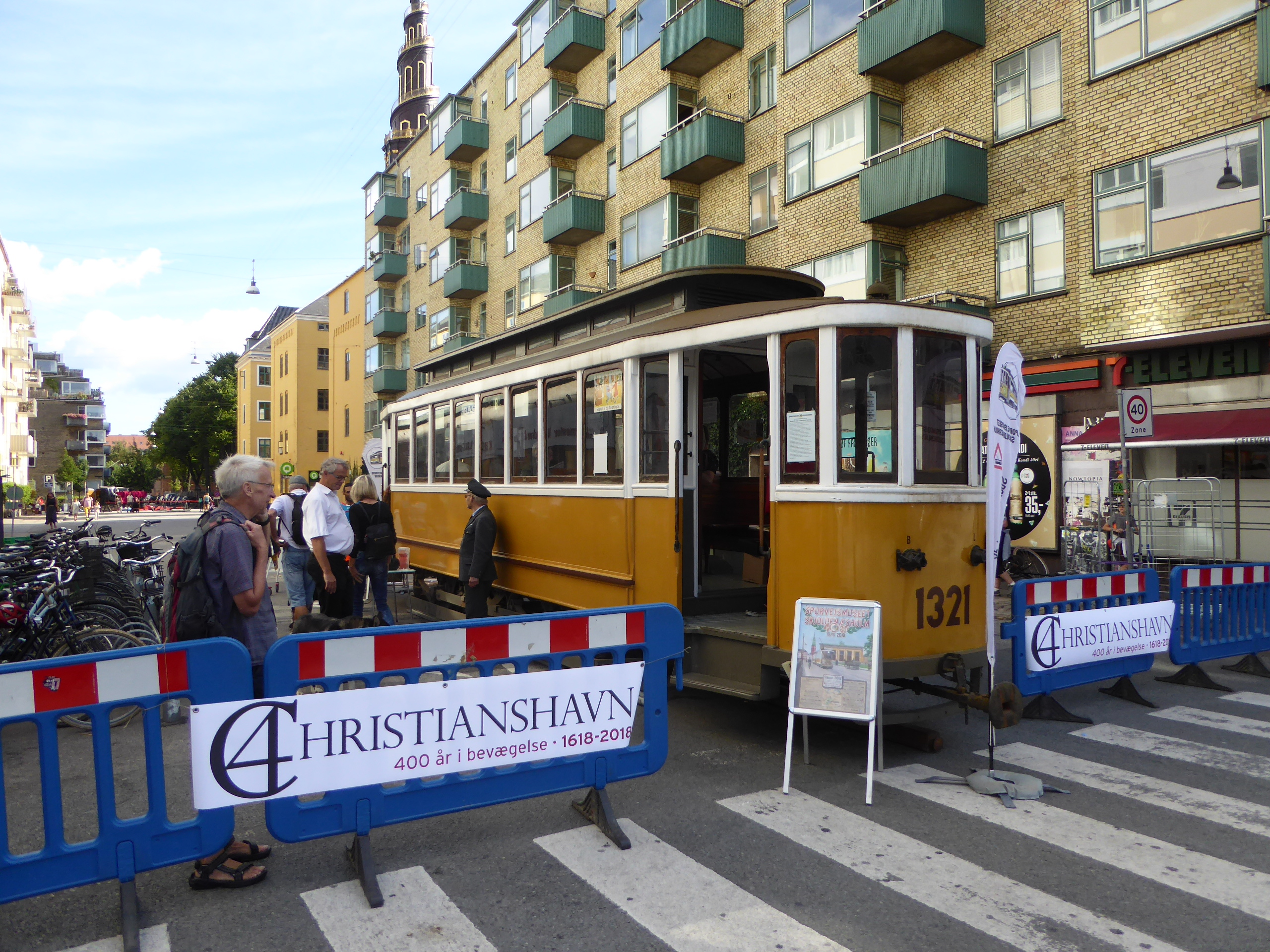 The district Christianshavn in Copenhagen celebrated 400 years anniversary. The old tram line 8 which served the district was represented by the tram trailer KS 1321 of Sporvejsmuseet Skjoldenæsholm. It was put on display for a day in Dronningensgade.